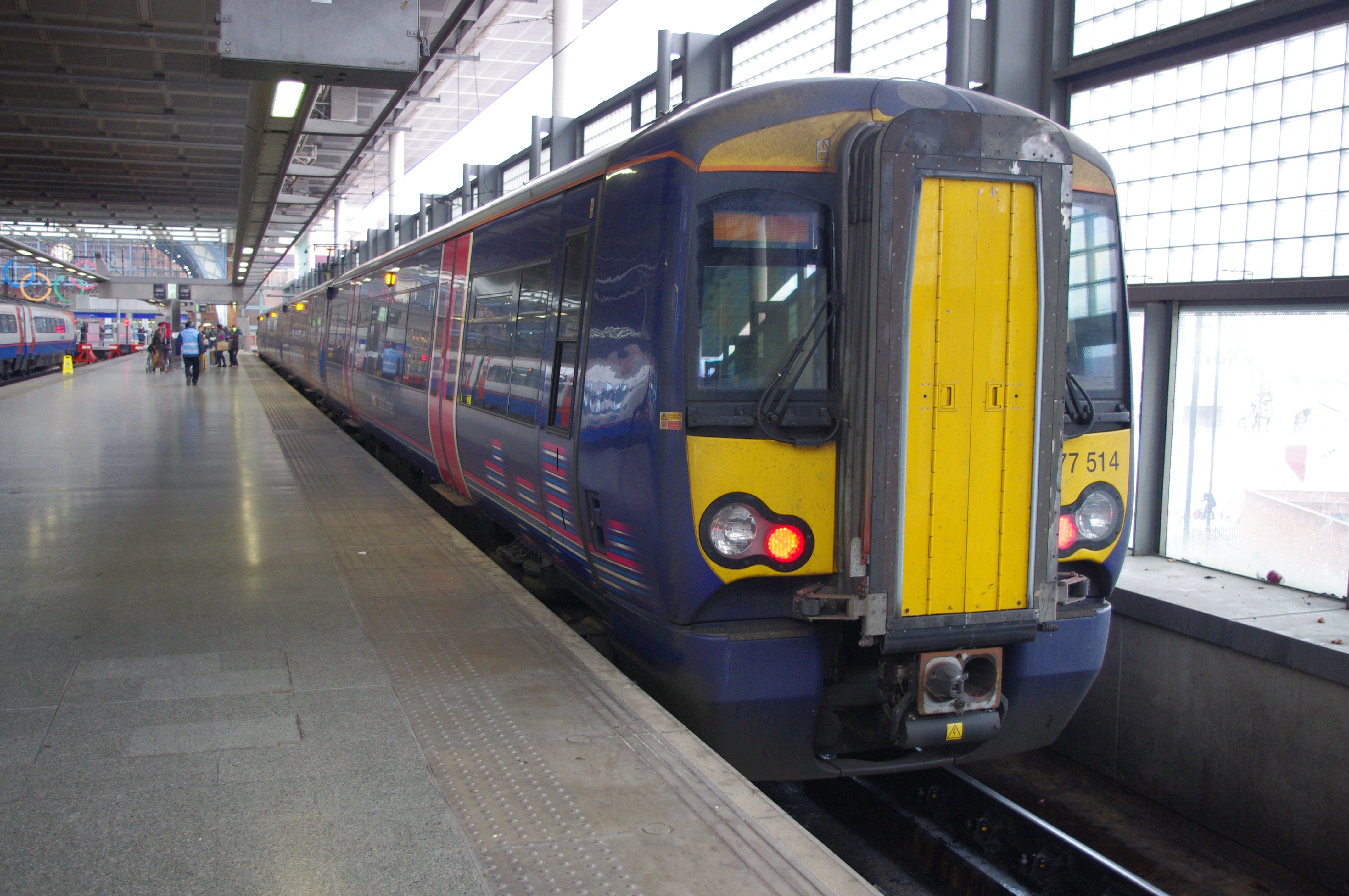 377514 stands at platform 1 at St Pancras International, terminating 1A37, the 13:24 First Capital Connect service from Bedford to this station.